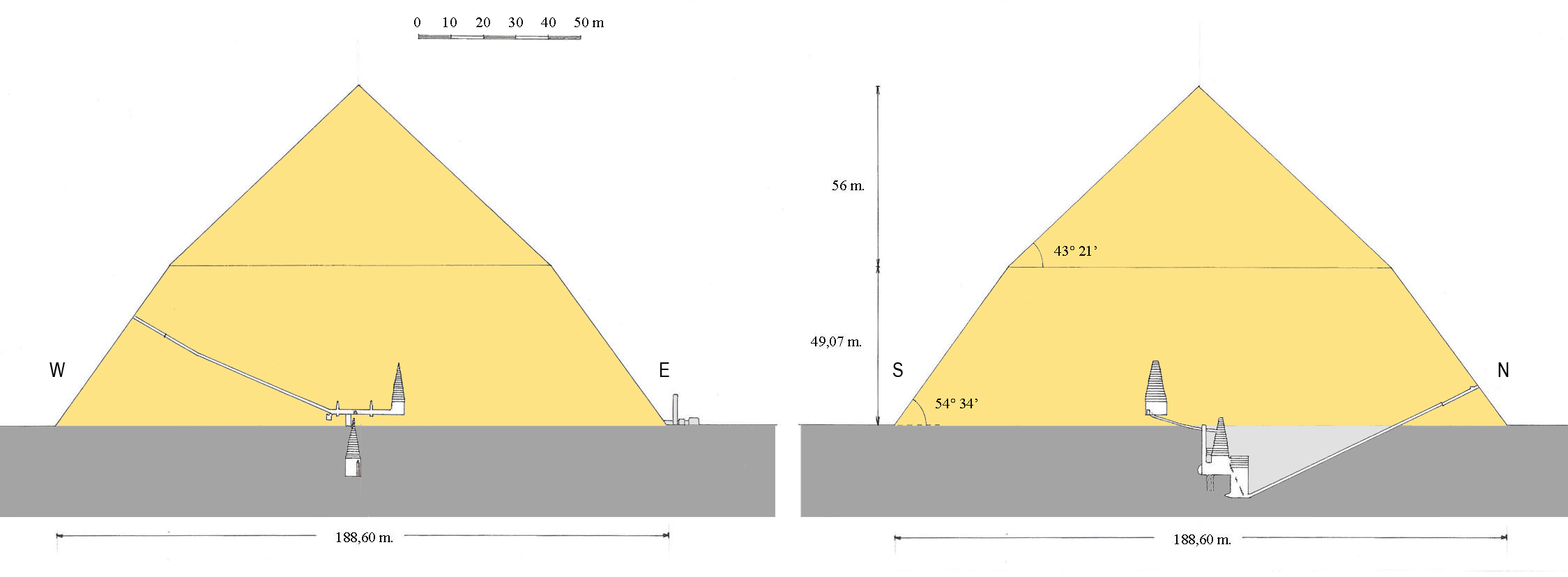 Substructure of the Bent Pyramid